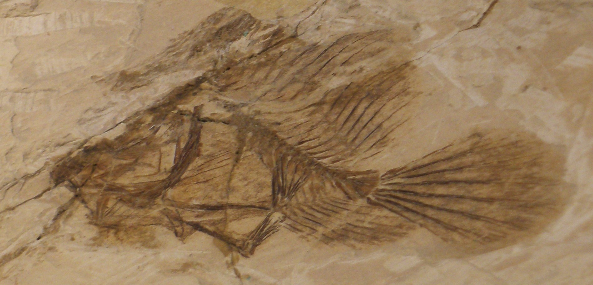 Fossil of Histionotophorus bossani, an extinct fish